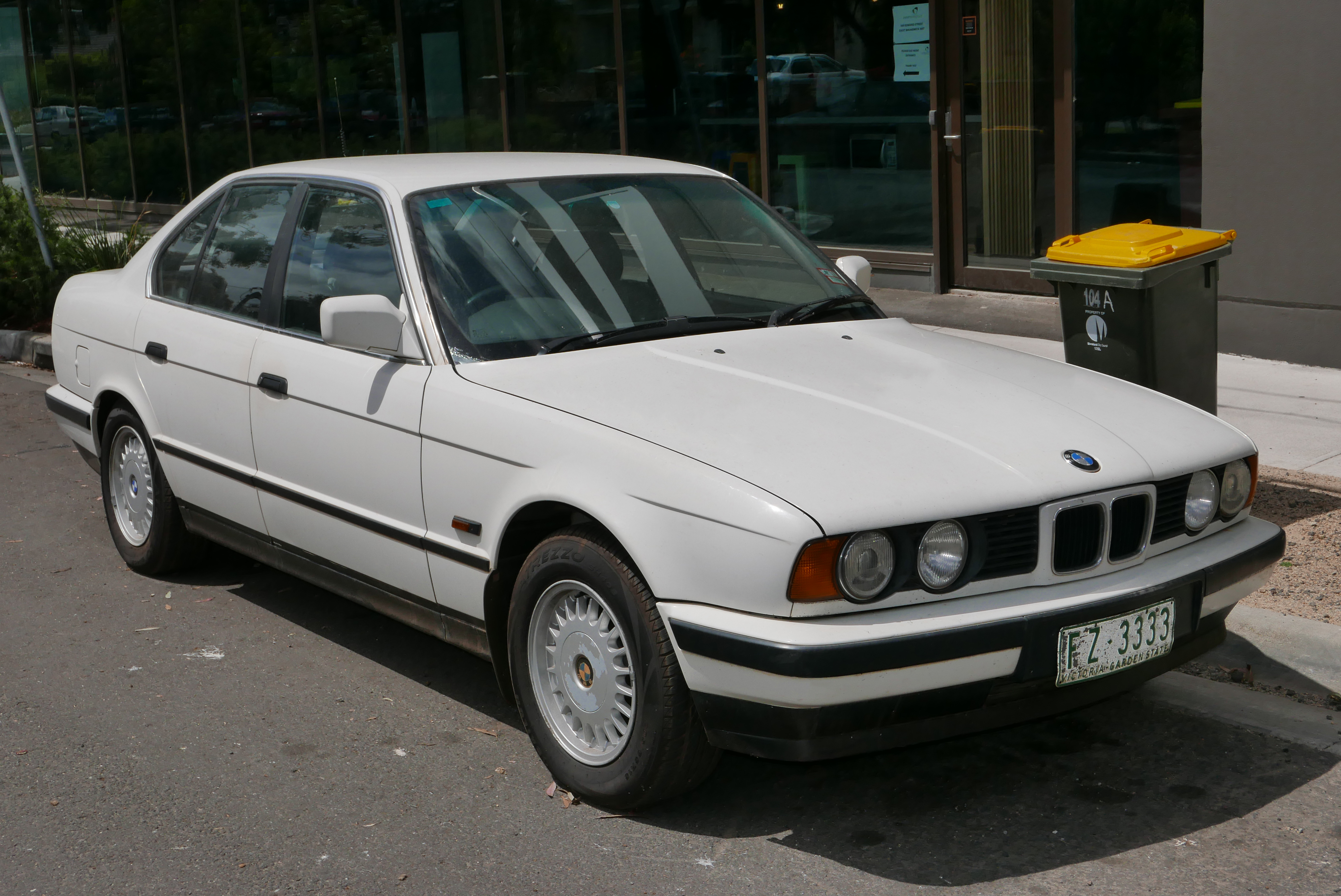 1989 BMW 525i (E34) sedan. Despite the date discrepancy between the description and the vehicle registration information below, a check of the VIN reveals a "production date" of 24 July 1989. Photographed in Brunswick East, Victoria, Australia. Vehicle registration enquiry results Jurisdiction Victoria Registration FZ3333 Chassis code WBAHC22060BE15511 Engine code 21816867 Compliance date 1990-03 Year of manufacture 1990